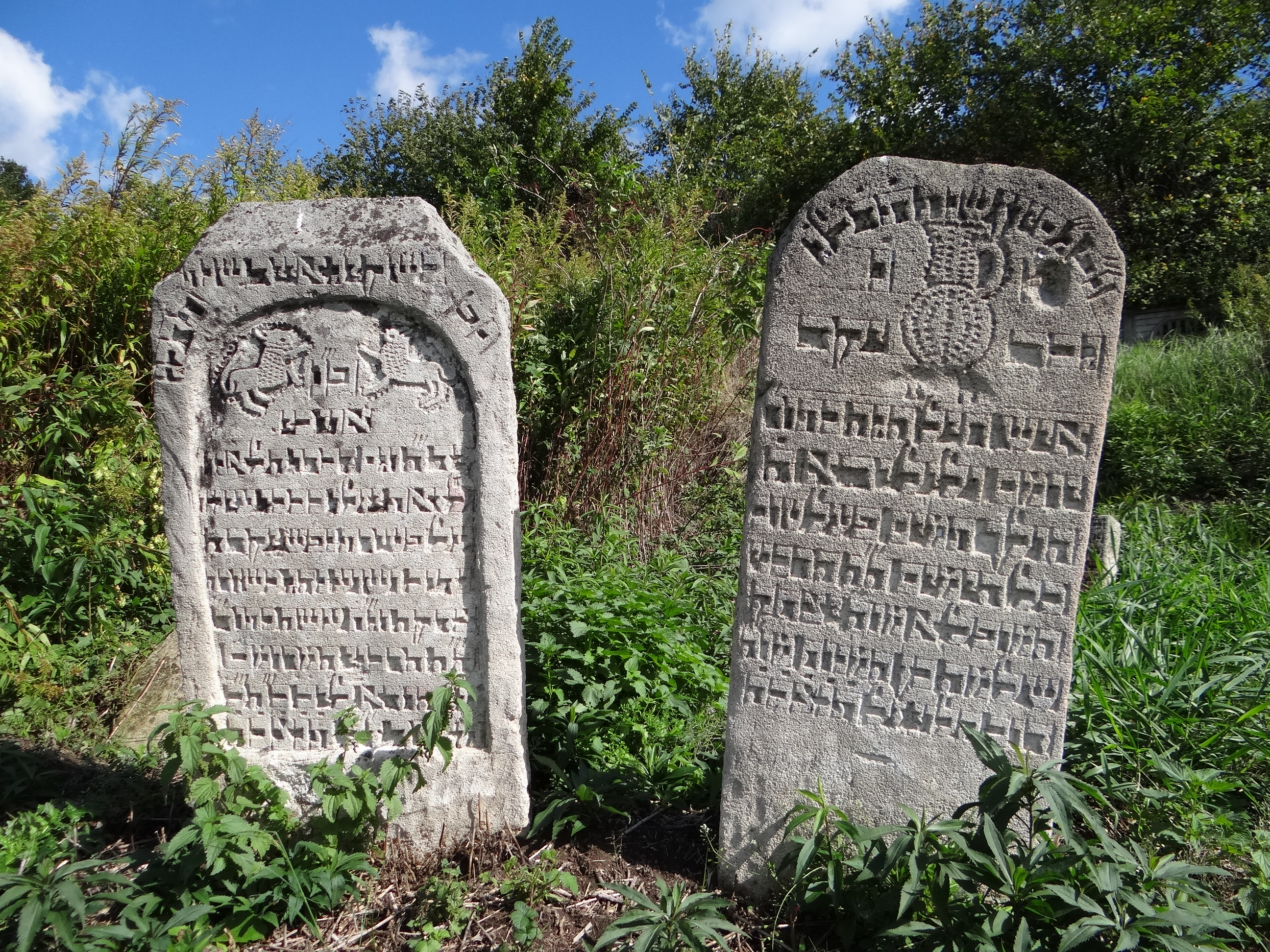 Jewish cemetery in Krzeszów, subcarpathian voivodeship